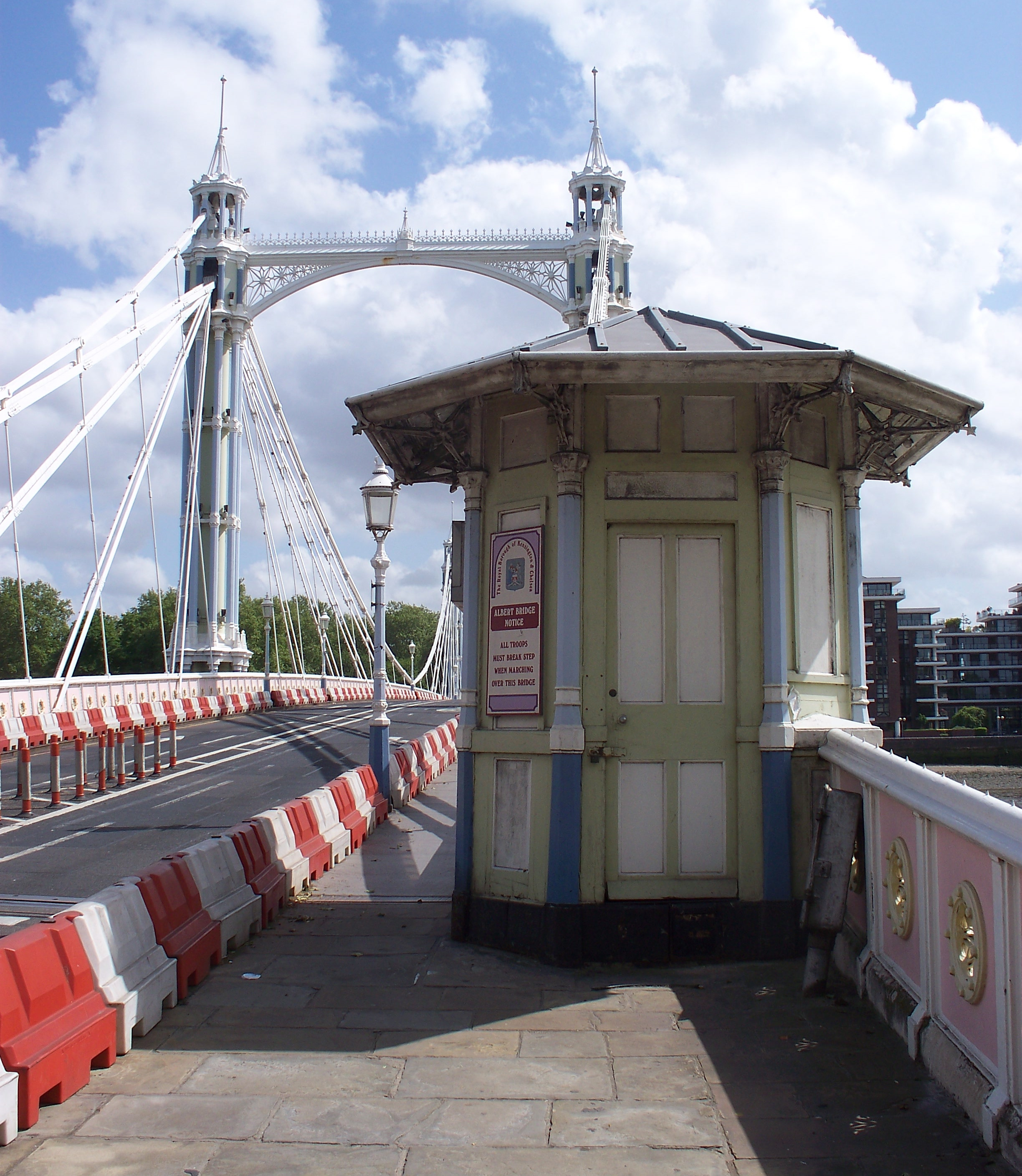 Albert Bridge, London. Photograph taken in a public location in the UK of a building on permanent public display, and exempt from copyright under Section 62 of the Copyright Designs & Patents Act 1988 ("it is not an infringement of copyright to film, photograph, broadcast or make a graphic image of a building, sculpture, models for buildings or work of artistic craftsmanship if that work is permanently situated in a public place or in premises open to the public")